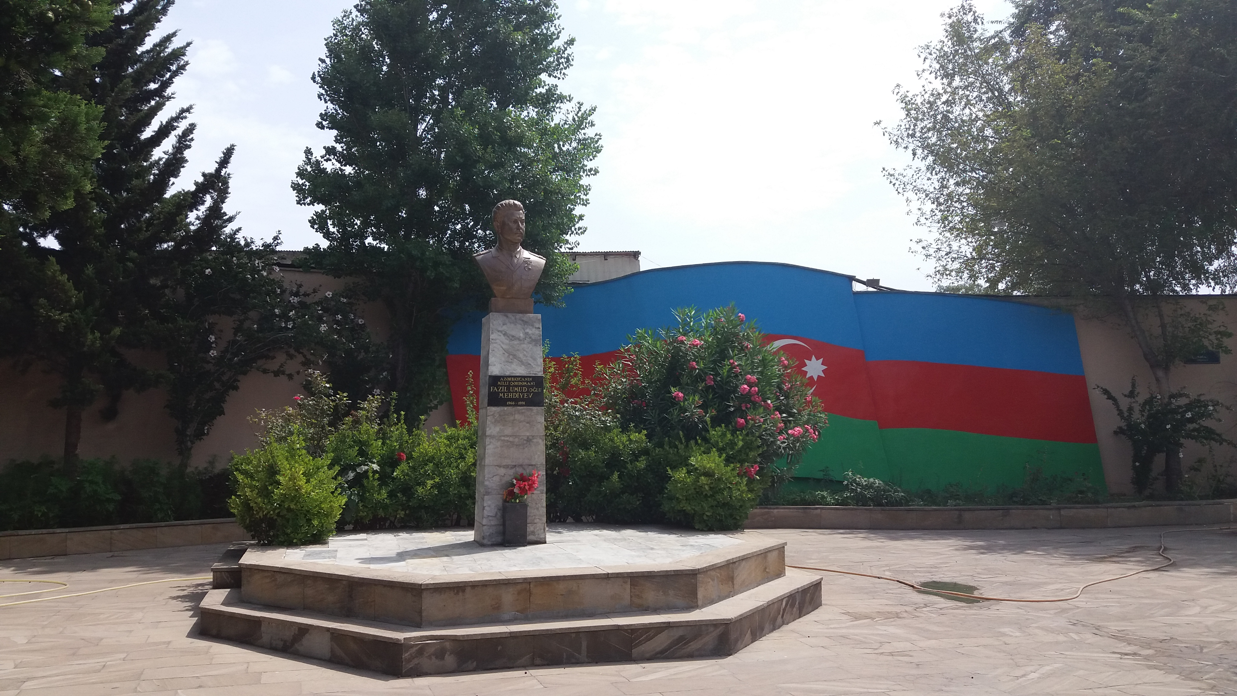 Park named after national hero of Azerbaijan Fazil Mehdiyev on 136, Khatai avenue.